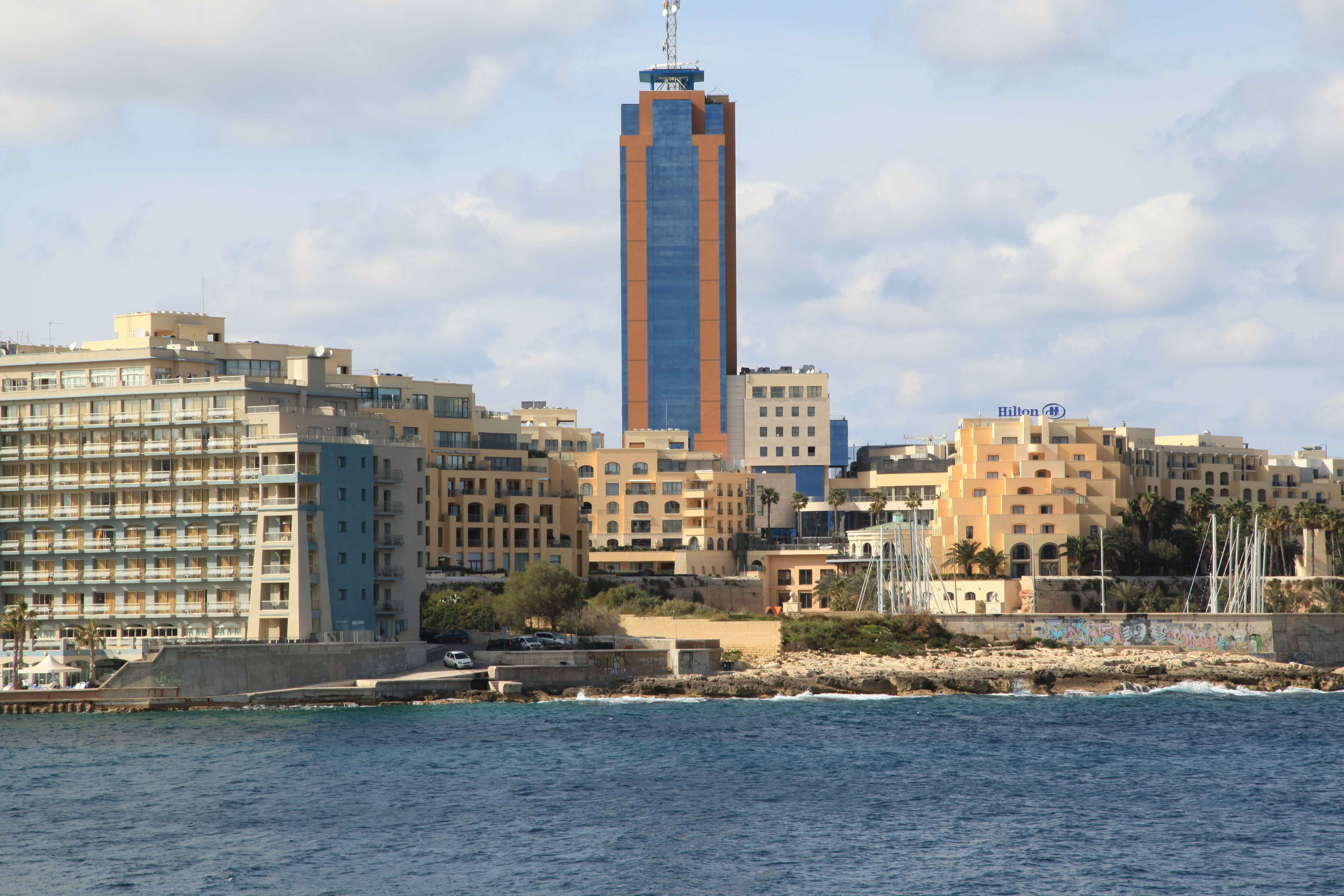 View from Triq it-Torri in Sliema to St. Julian's (San Ġiljan), Malta